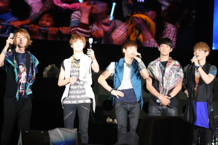 Shinee at the Special Stage Expo on June 26, 2012.